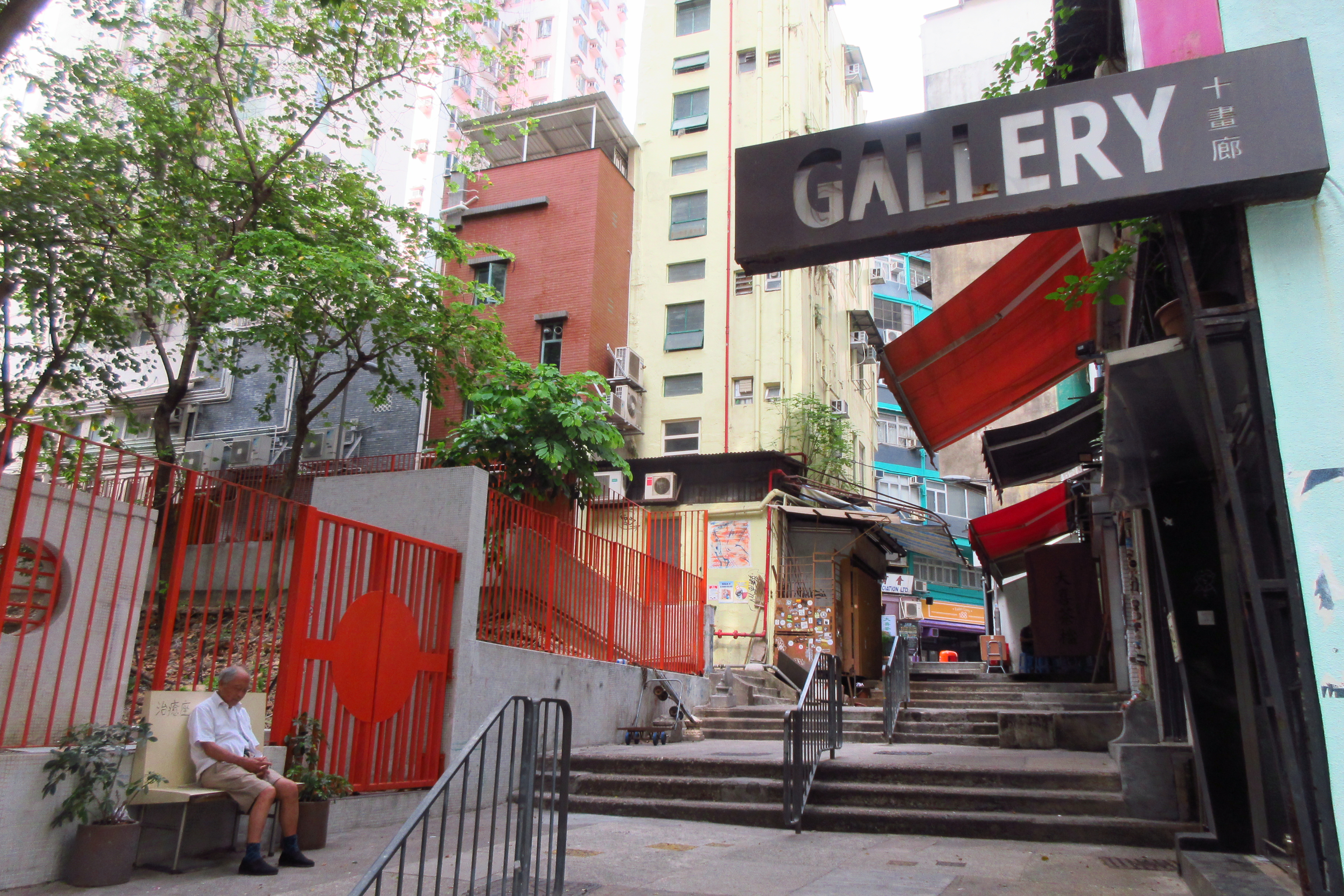 HK 上環 Sheung Wan in June 2018